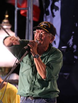 Prof. Phuwadol Songprasert (ภูวดล ทรงประเสริฐ), a historian from Faculty of Social Sciences, Kasetsart University, at a People's Alliance for Demecracy protest at Thai Government House